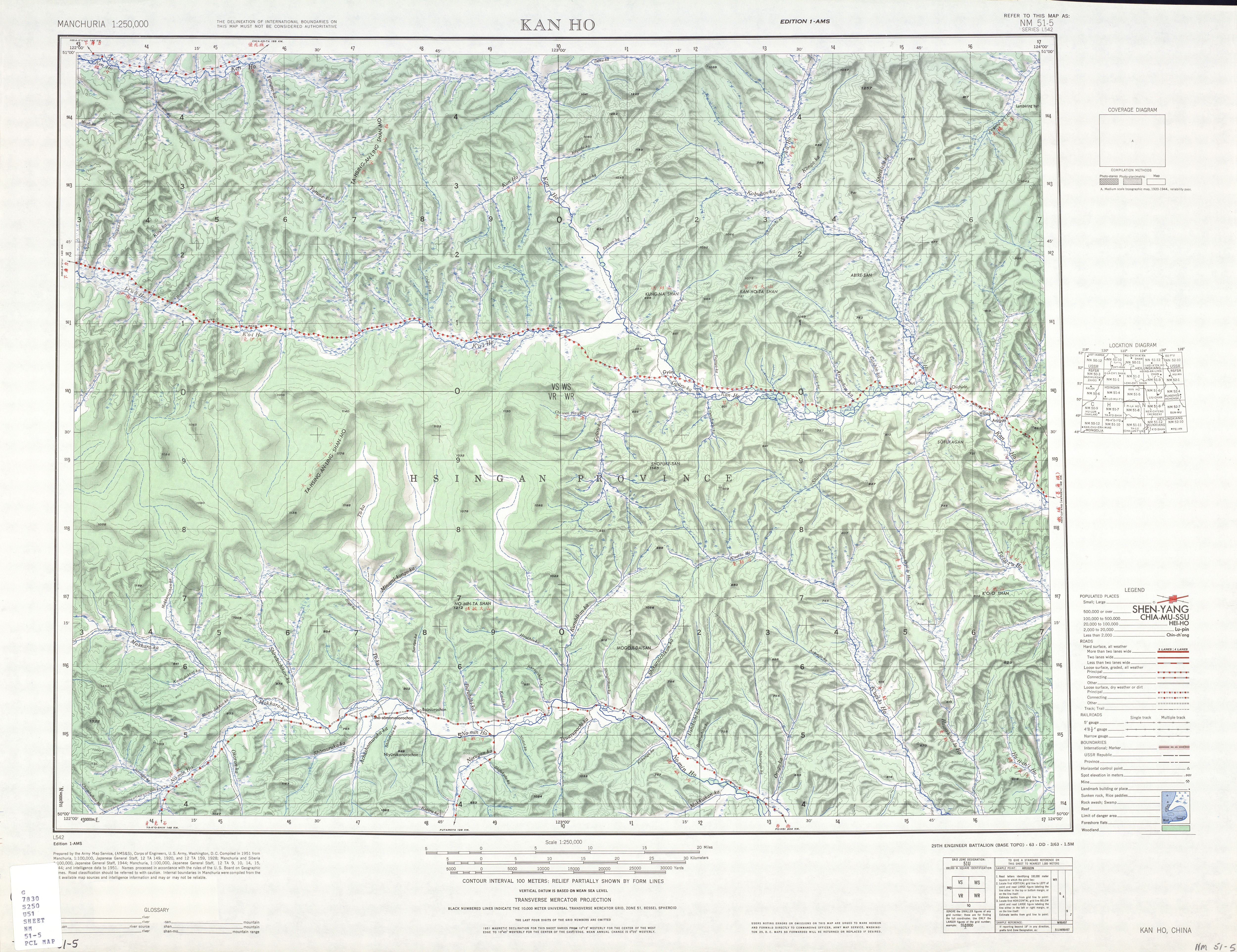 Manchuria AMS Topographic Maps